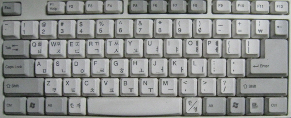 A typical IBM PC-compatible/Microsoft Windows keyboard layout sold in South Korea. (K652V by Samsung Electronics).